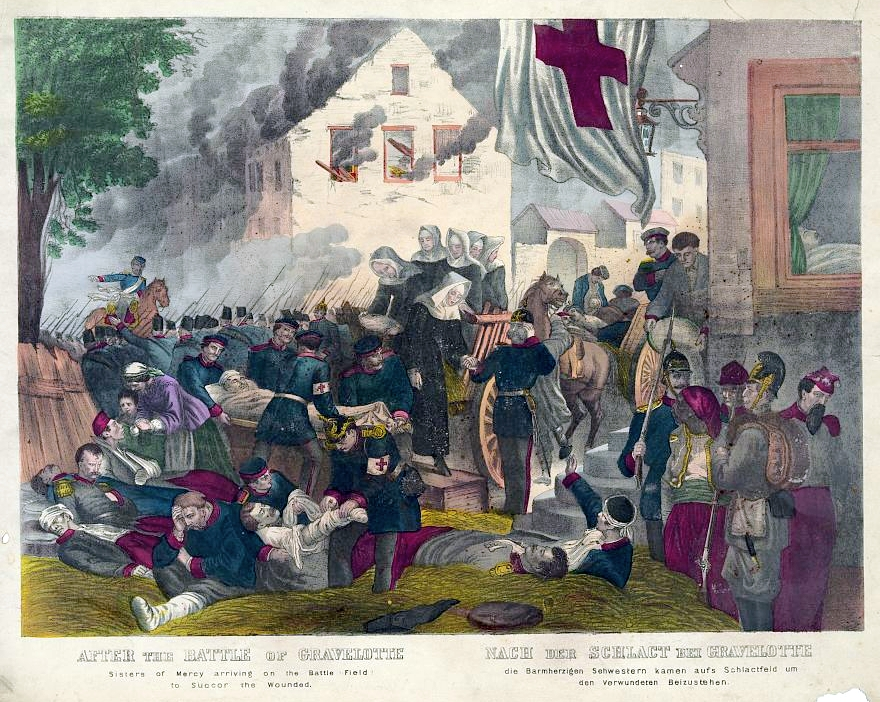 After the Battle of Gravelotte. Sisters of Mercy arriving on the battle field to succour the wounded. (Please note: The name of the painting may be correct - but these are not the "Sisters of Mercy" founded by Catherine McCauley. Probably they are the Sisters of Mercy of St. Borromeo - founded in France.)